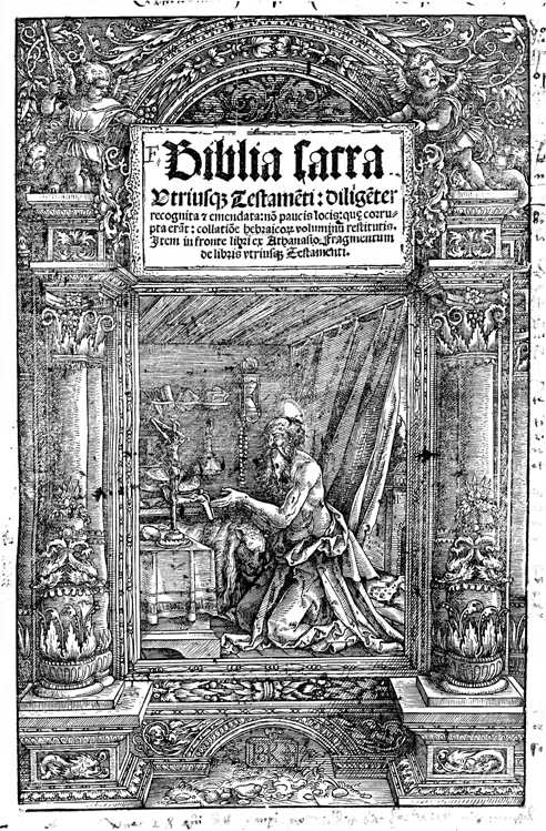 Title Page of a 1523 edition of the Vulgate. The volume containing this image is part of the Pitts Theology Library at Emory University. This image, and many others, have been included in the Pitts Digital Image Archive.